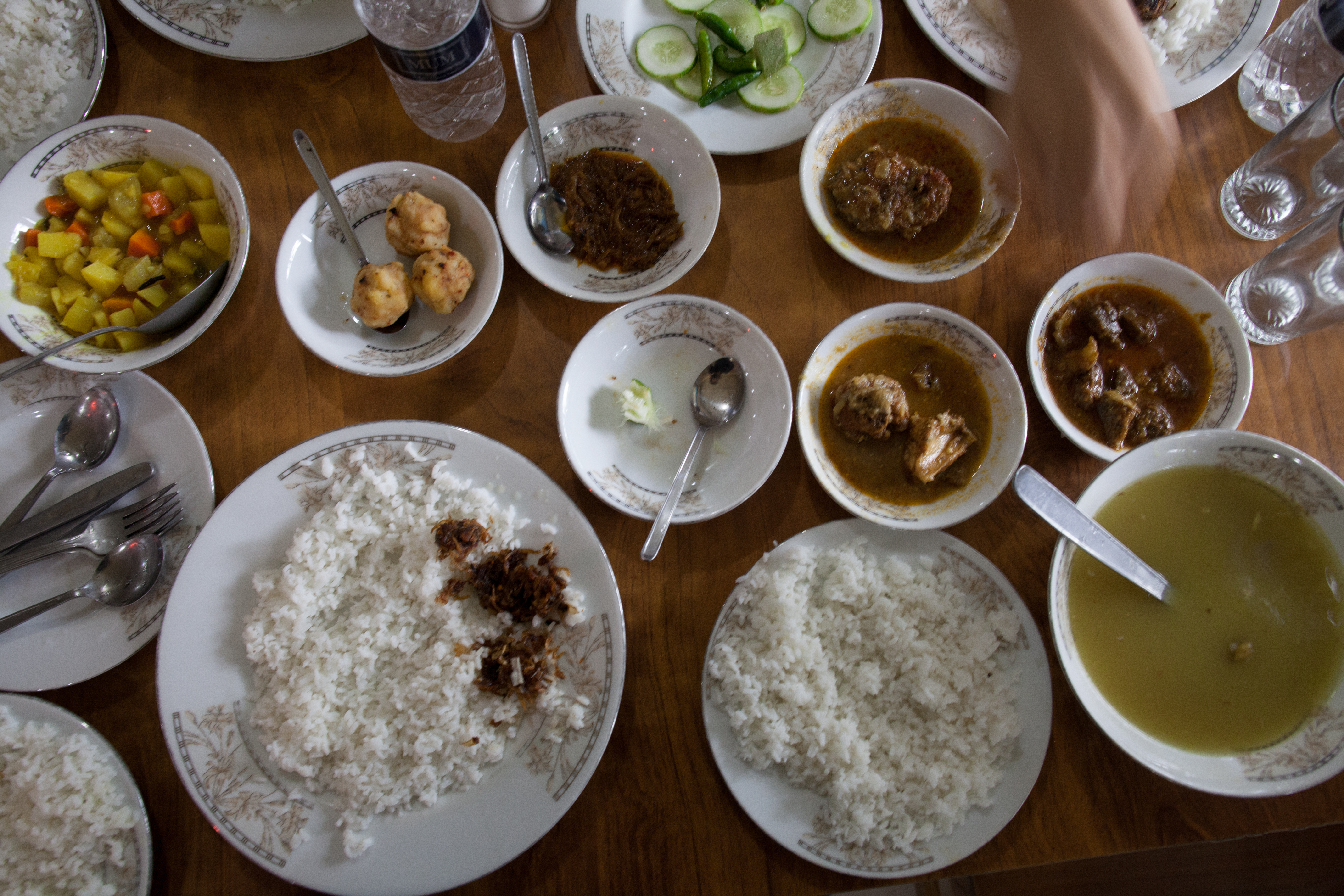 Lawachara Rain Forest Srimangal Sylhet ...